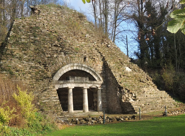 Moulin de Mistou, the pyramid under which stays the footpath between the castle and the mill